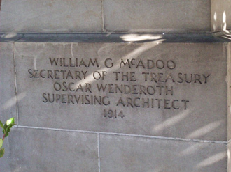 This is a picture of the dedication cornerstone of the Chico Midtown Station. It is located on the western corner of the building at Fifth and Broadway. I took this picture myself. I relinquish all rights to it. Category:Images of Chico Summary This is a picture of the dedication cornerstone of the Chico Midtown Station. It is located on the western corner of the building at Fifth and Broadway. I took this picture myself. I relinquish all rights to it.